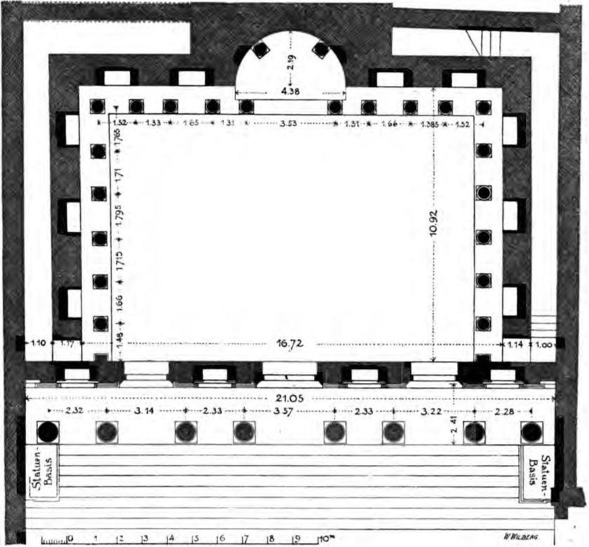 map of the library of ephesos